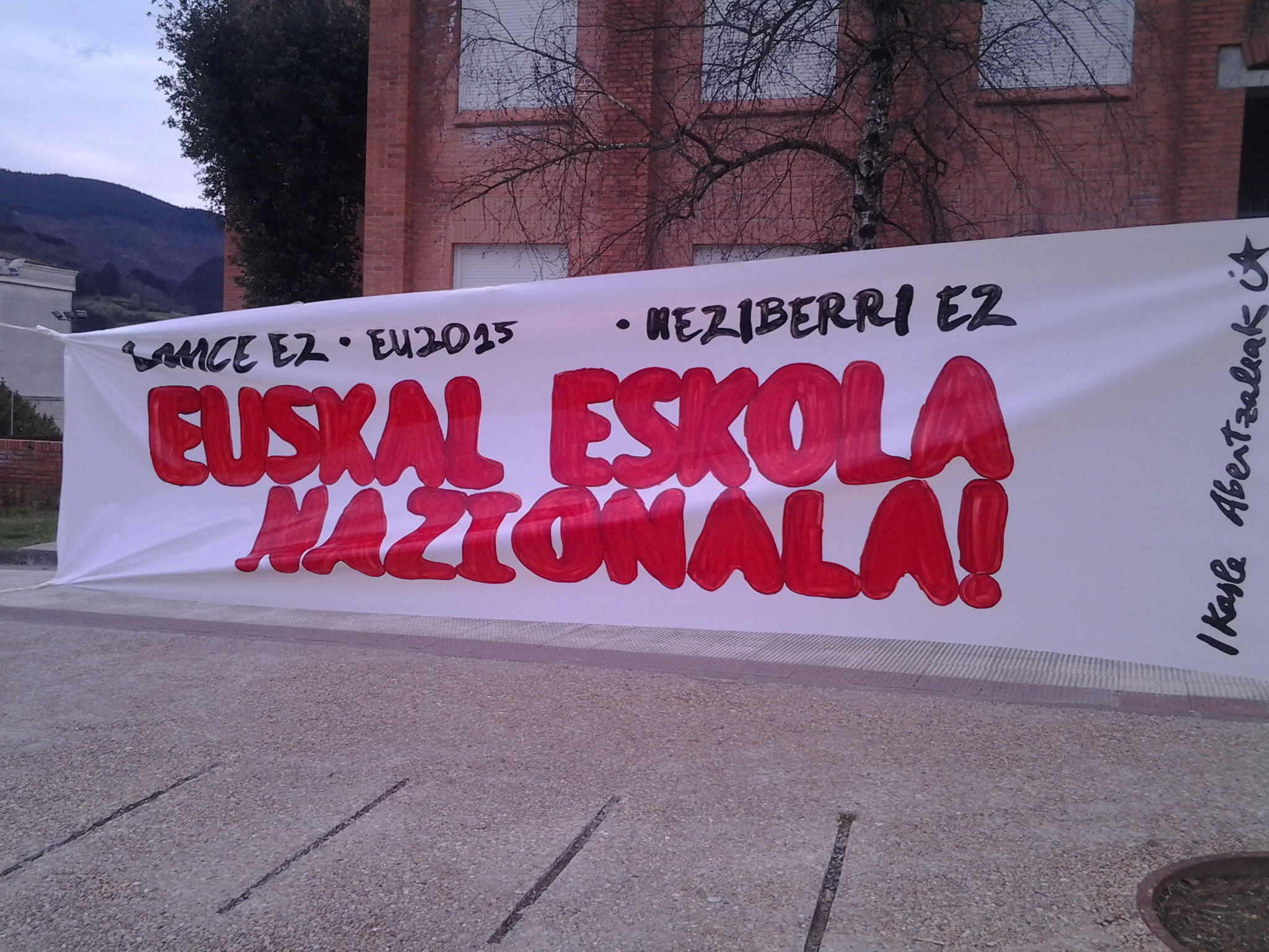 Banner in support of a national basque school.